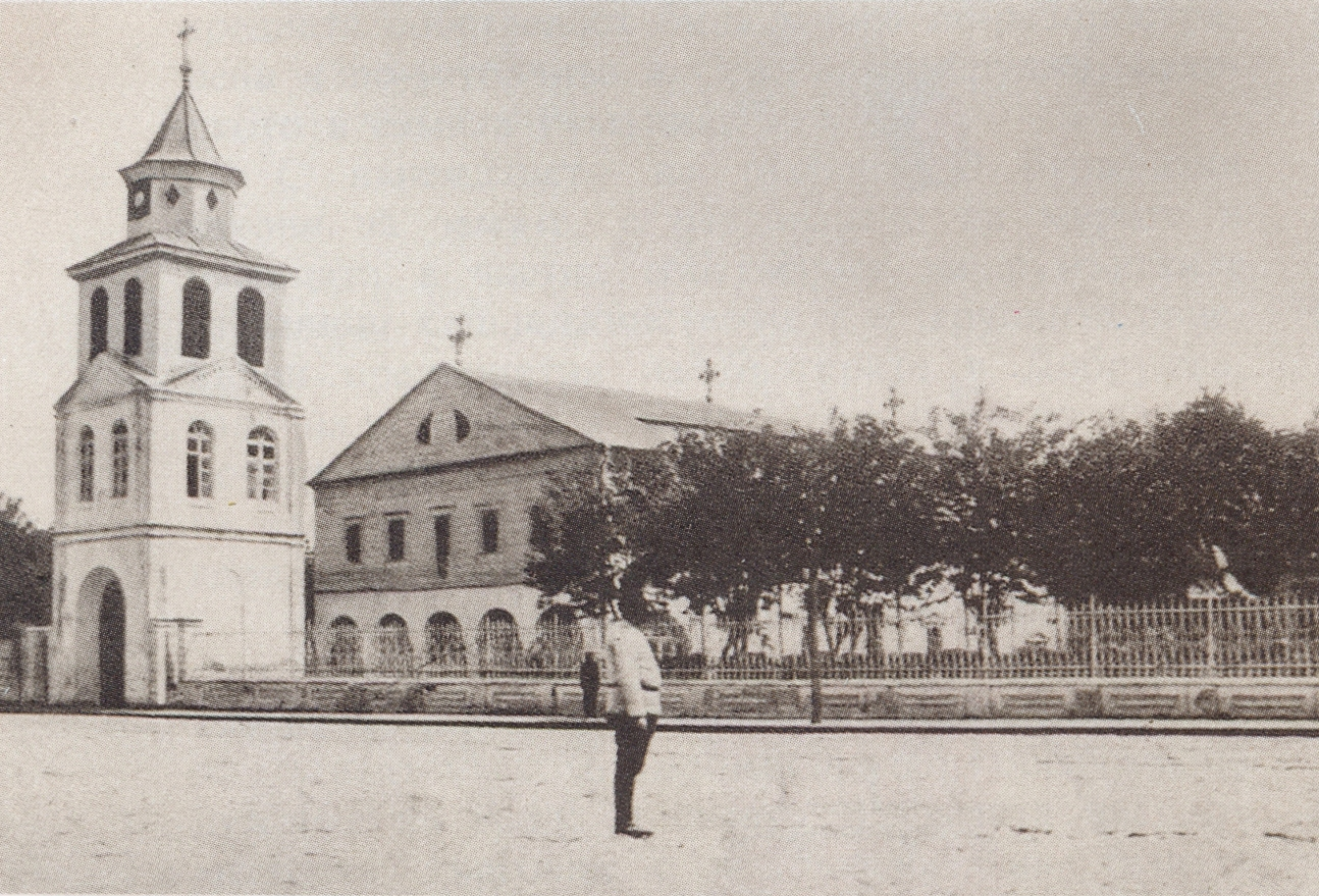 Bulgarian church "St George" in Tulcha, beginning of 20 century